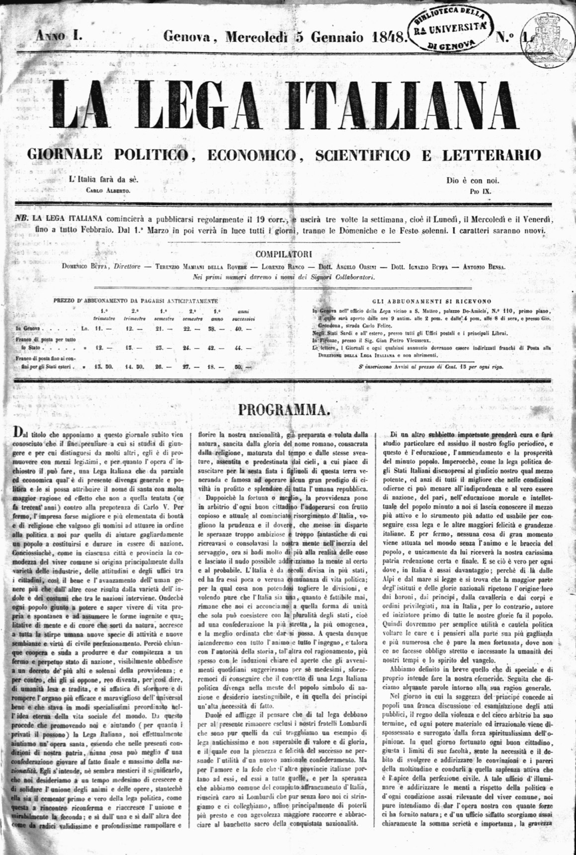 First page of risorgimental newspapar La Lega Italiana 1848